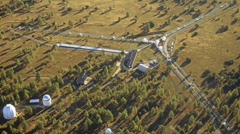 Navy Prototype Optical Interferometer, Anderson Mesa, Flagstaff